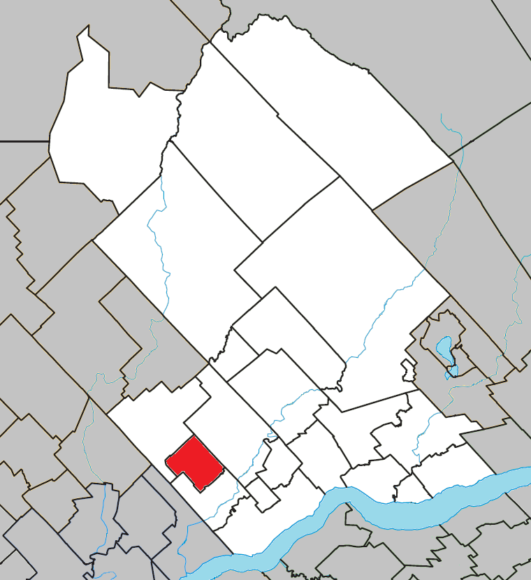 Location of Saint-Thuribe, Quebec within Portneuf Regional County Municipality.